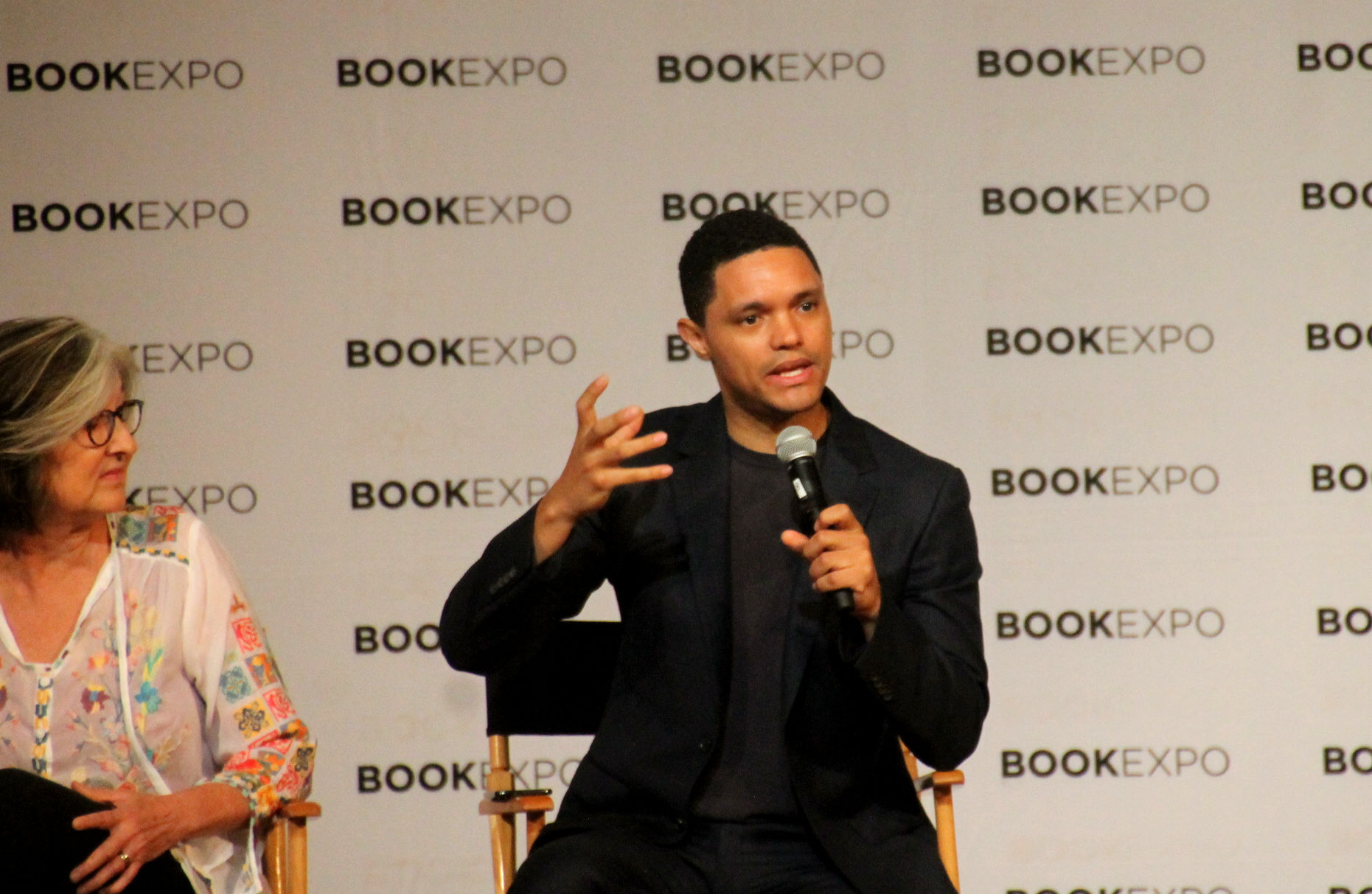 Trevor Noah (right) and Barbara Kingsolver speaking at BookExpo 2018